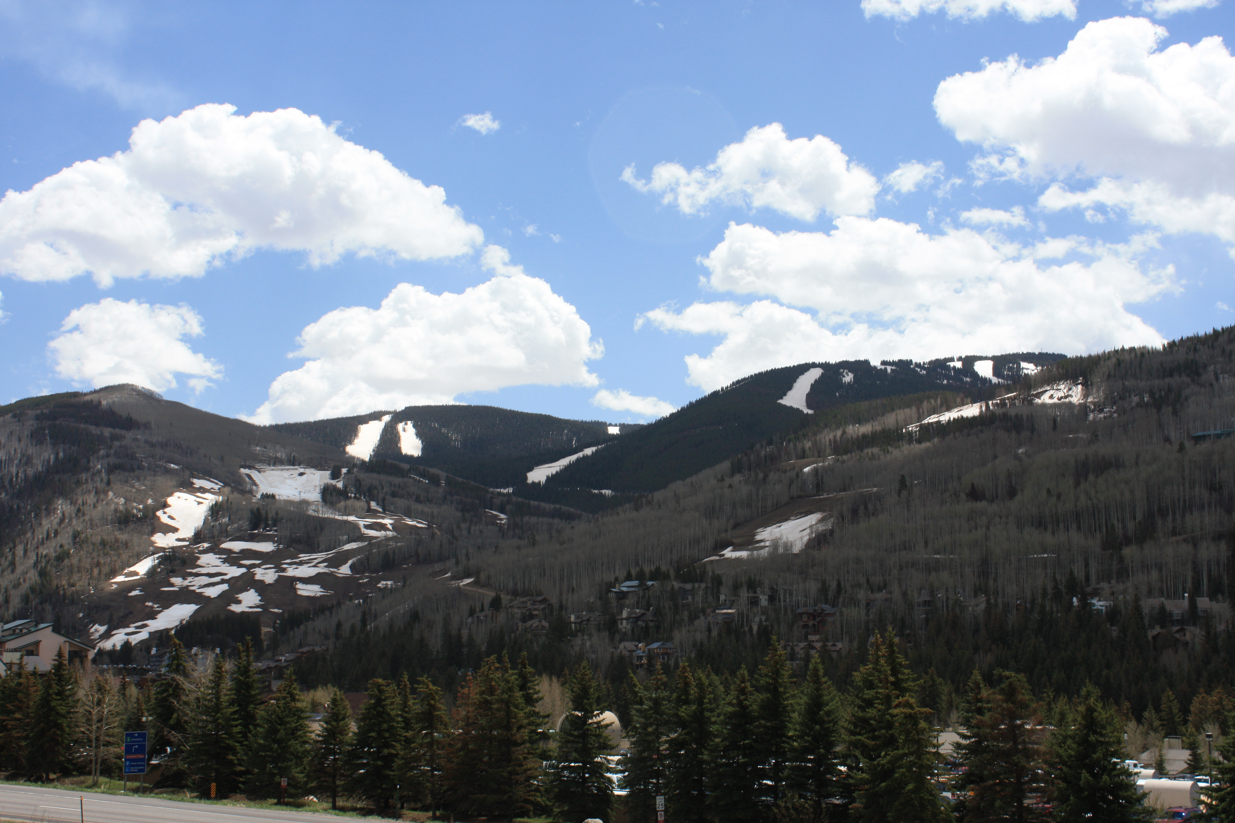 Taken from the frontage road on the north side of I-70.